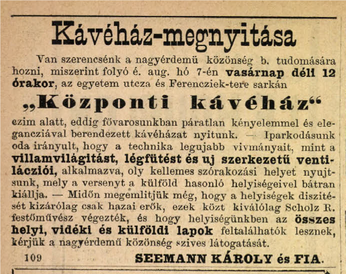 Announcement reads: Café-opening We are lucky to have a high-profile audience b. to be informed that river é. aug. on the 7th of Sunday at 12 noon on the corner of the university street and Ferencziek Square “Central cafe During this time, we will open a café in our capital with unparalleled comfort and elegance. - Our industry has focused on providing the latest technology, such as electric lighting, air heating and newly ventilated ventilation, to provide a pleasant place of entertainment that can compete with similar rooms abroad. - As soon as we mention that the decoration of the rooms was done exclusively by domestic forces, among them especially the painter Scholz E., and that all local, rural and foreign newspapers can be invented in our room, please visit the high-profile audience. 109 KÁROLY SEEMANN and SON.